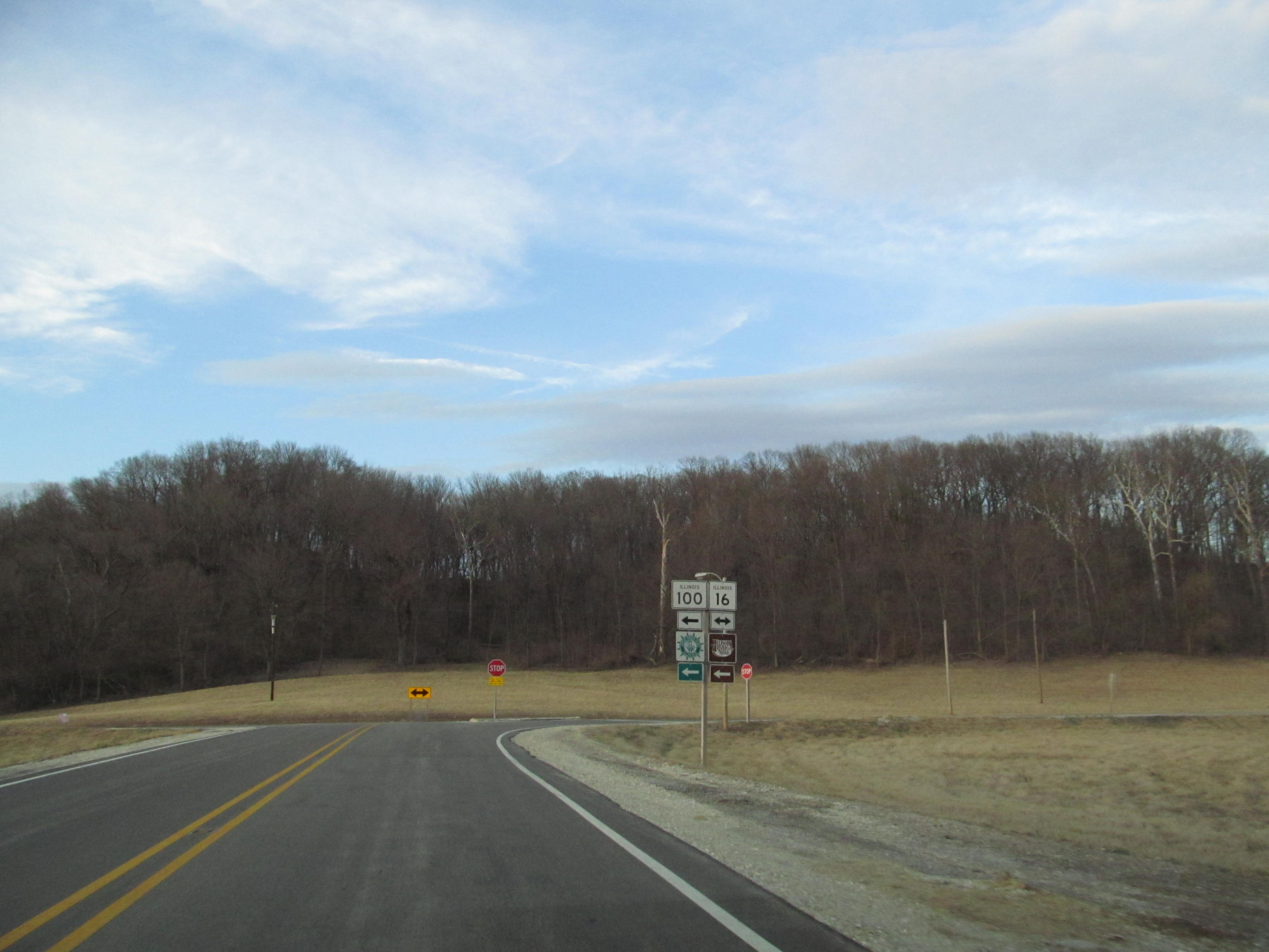 East end of Illinois Route 16/Illinois Route 100 overlap.